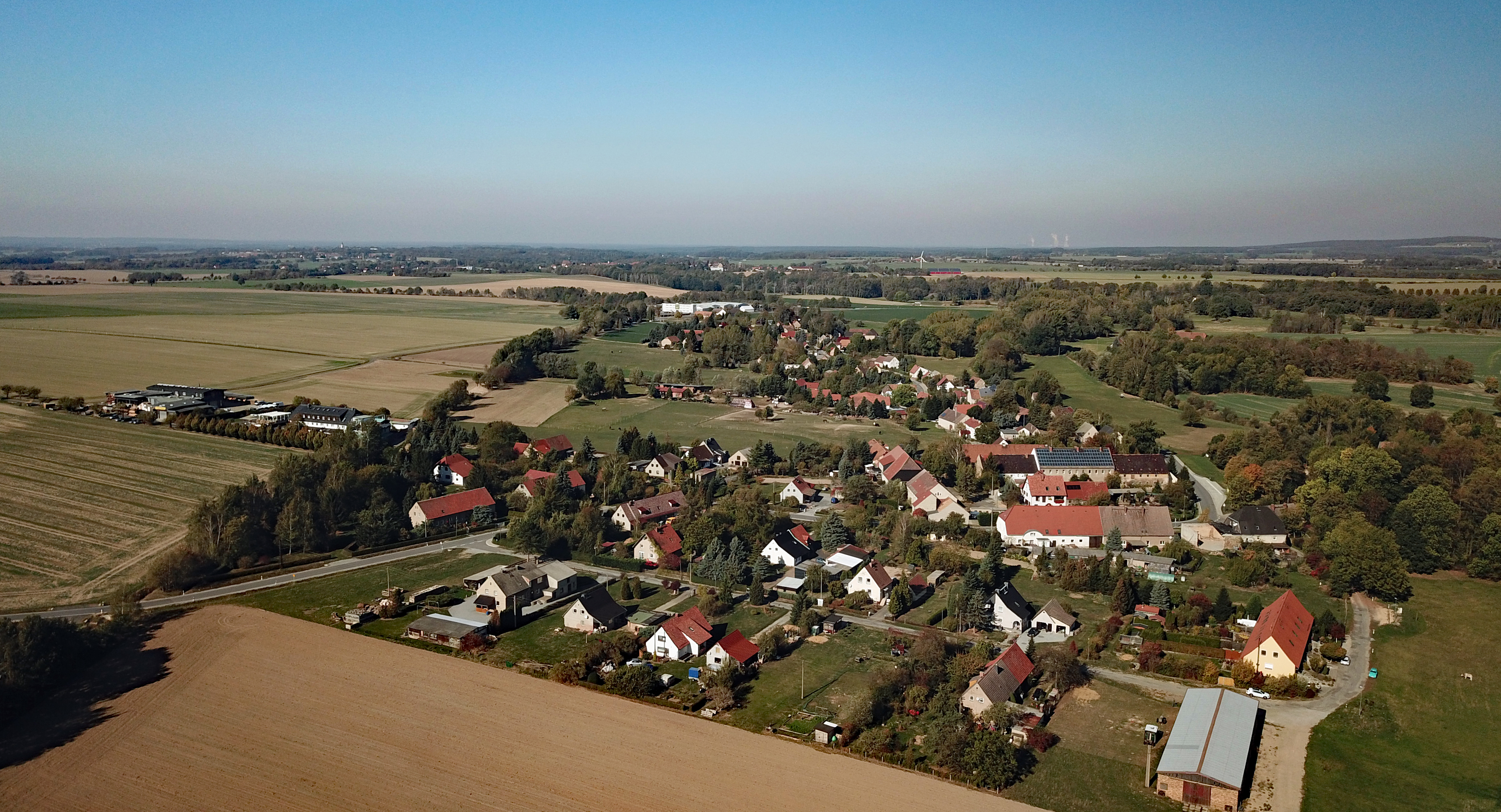 Maltitz (Weißenberg, Saxony, Germany) Hornjoserbsce: Powětrowy wobraz Malećic pola Wósporka